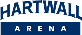 Hartwall Arenas logo